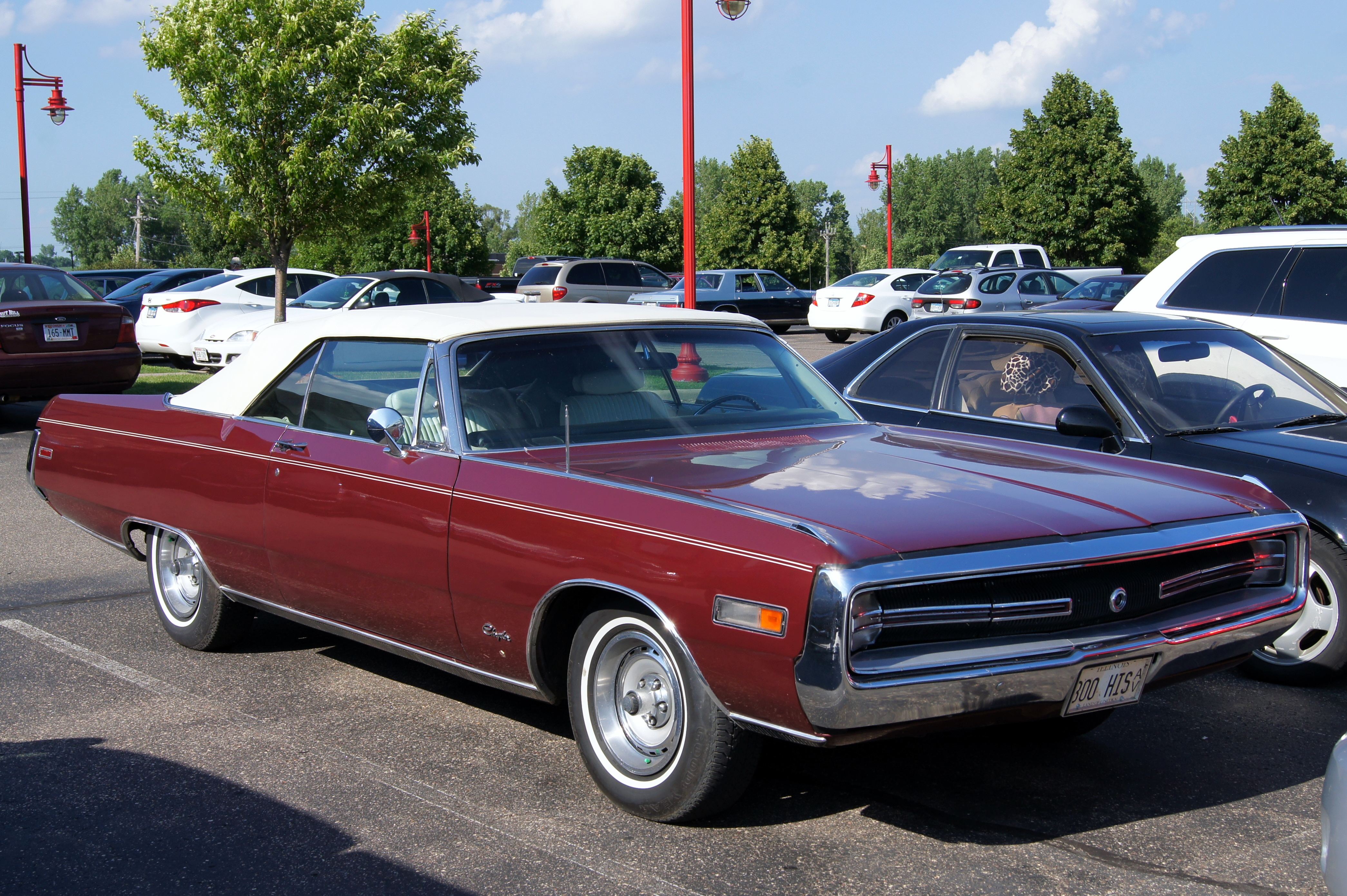 1st Combined Convention 28th Annual National DeSoto Club Convention & 44th Annual Walter P.Chrysler Club Convention July 17 - 21, 2013 Lake Elmo, Minnesota